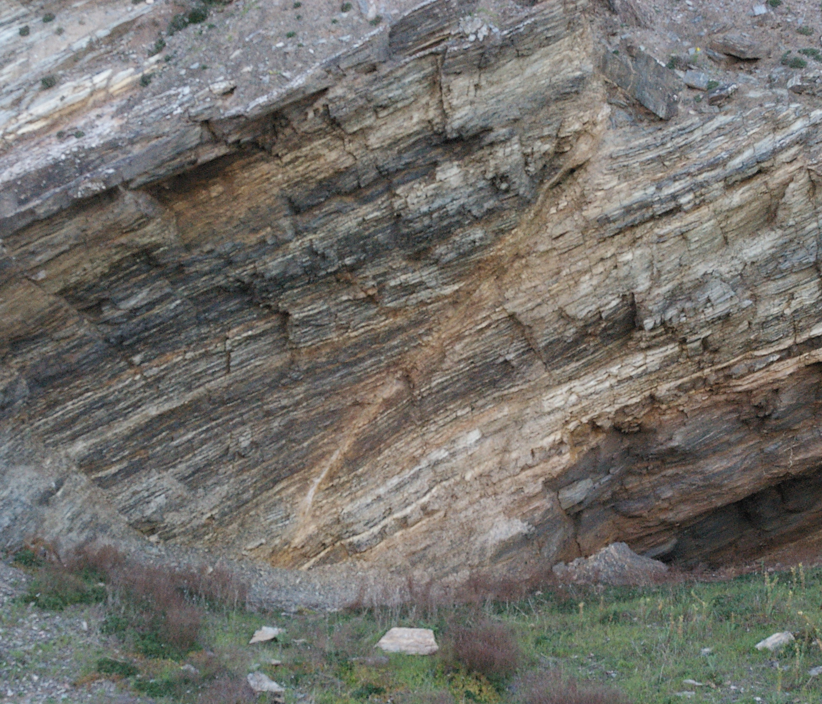 Fault near Adelaide, Australia